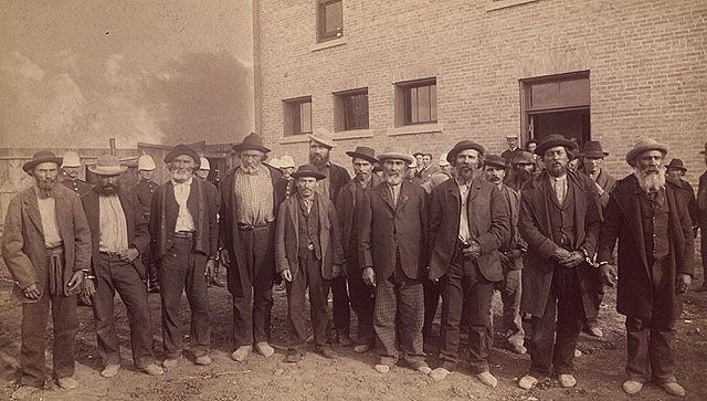 Métis and First Nations prisoners following the North-West Rebellion, August, 1885. (L-R): Ignace Poitras, Pierre Parenteau, Baptiste Parenteau, Pierre Gariepy, Ignace Poitras Jr., Albert Monkman, Pierre Vandal, Baptiste Vandal, Joseph Arcand, Maxime Dubois, James Short, Pierre Henry, Baptiste Tourond, Emmanuel Champagne, Kit-a-wa-how (Alex Cagen, ex-chief of the Muskeg Lake Indians)